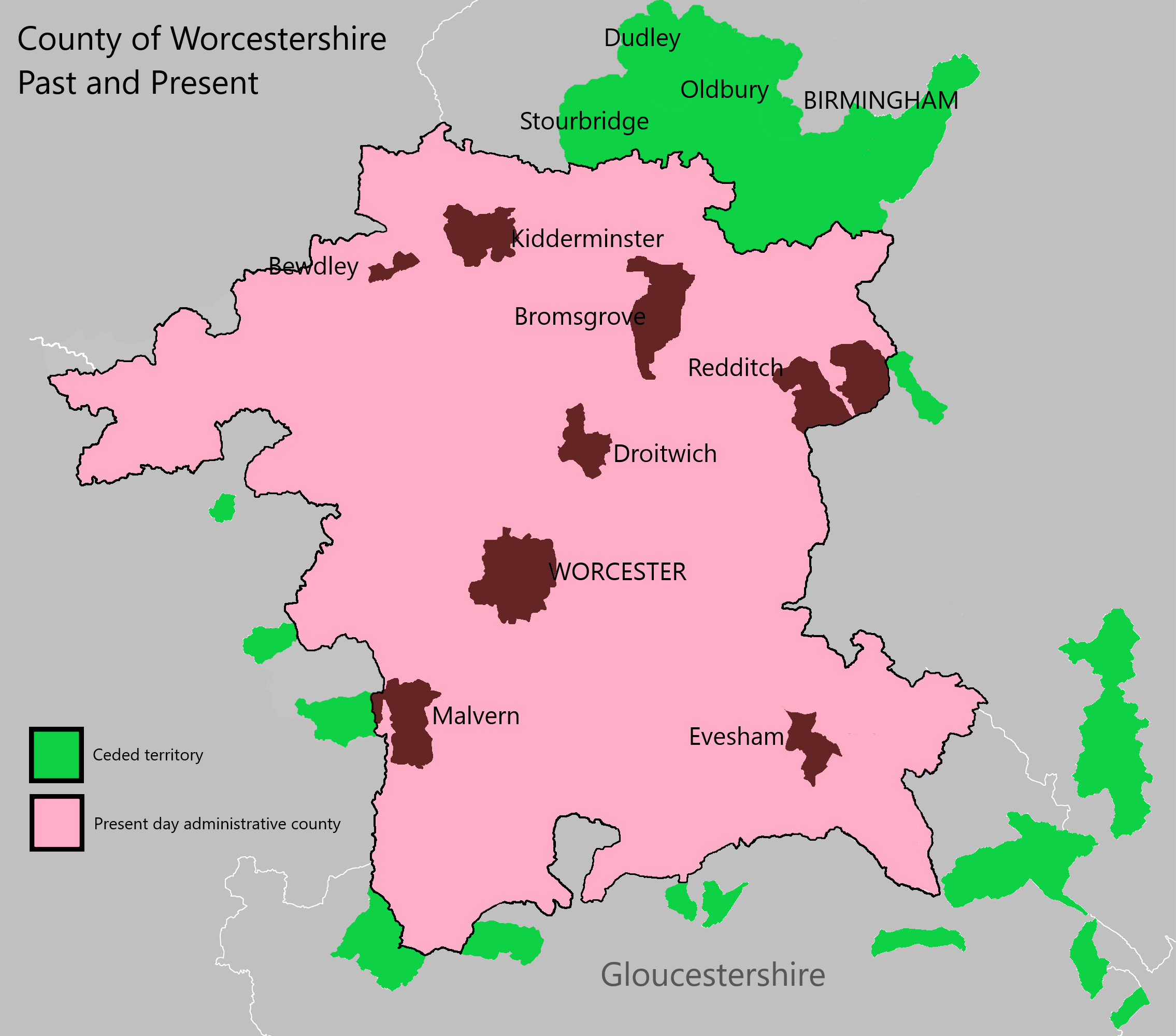 Present-day Worcestershire set against a backdrop of the ceded territory from the last one hundred and fifty years or so. Other information N/A